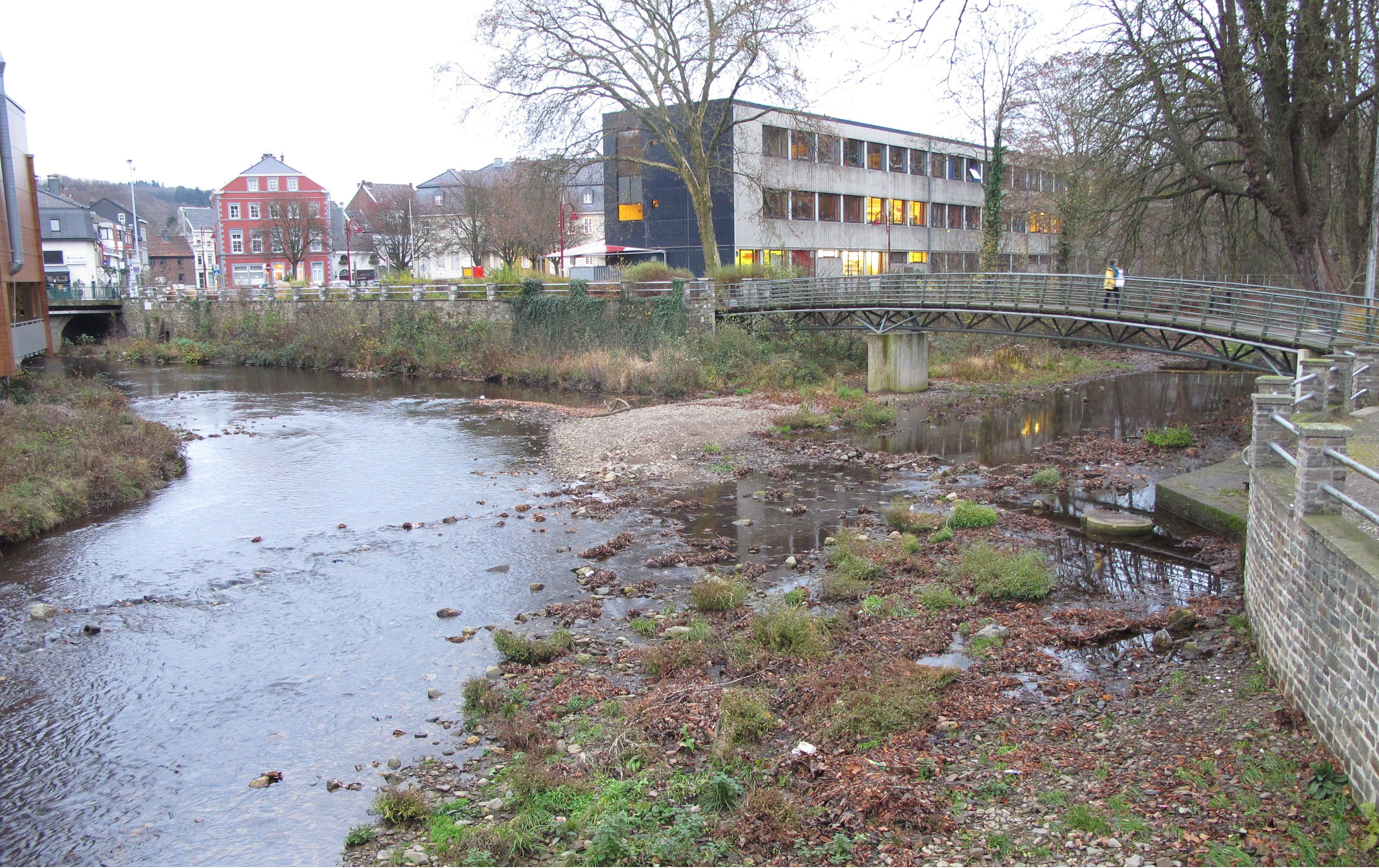 Confluence of Vesdre river (left) and Hill river in Eupen (Belgium)